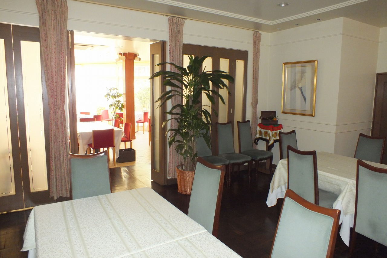 Kobe-Seiyo-ken 神戸精養軒店内